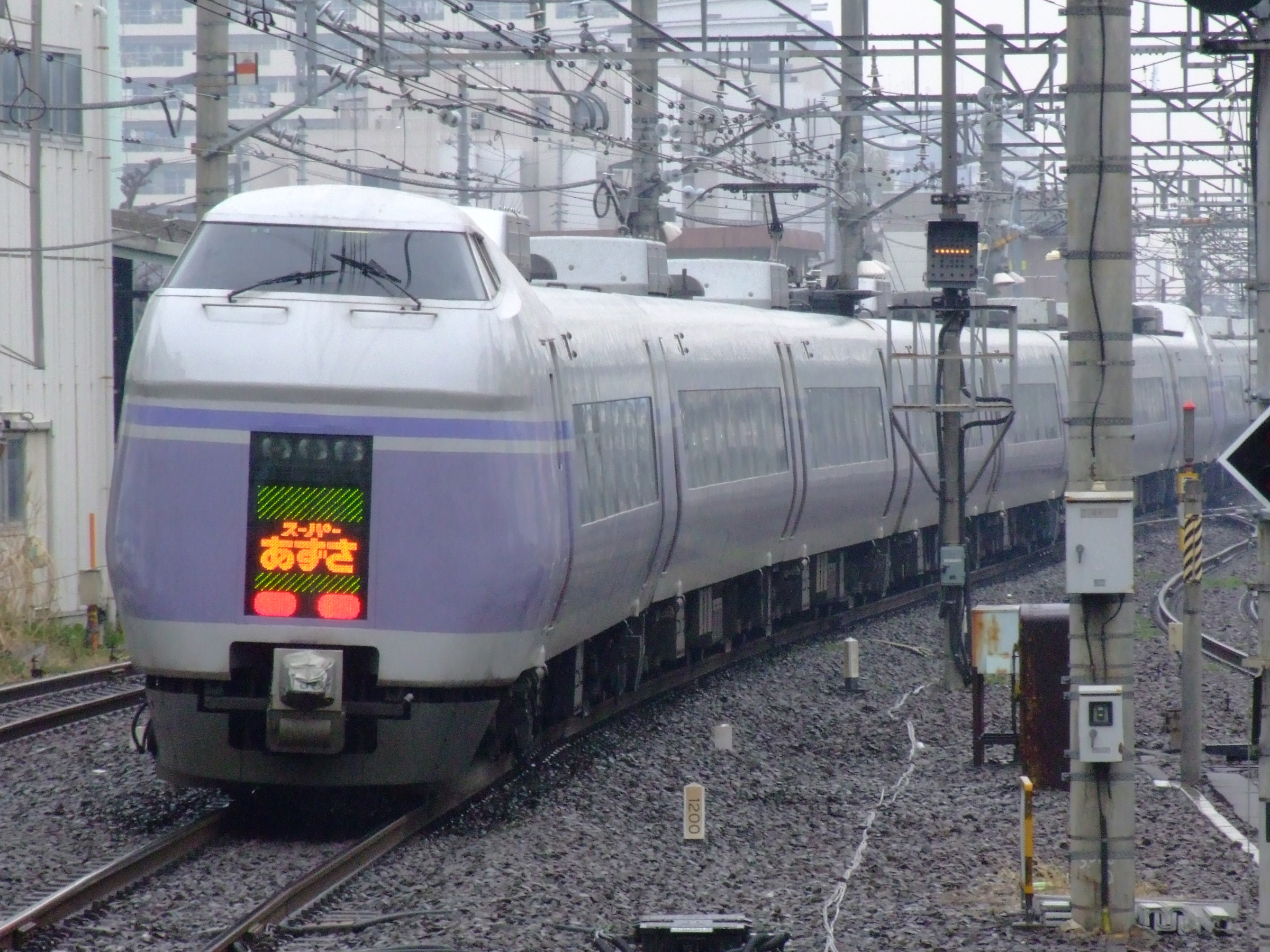 East Japan Railway type E351